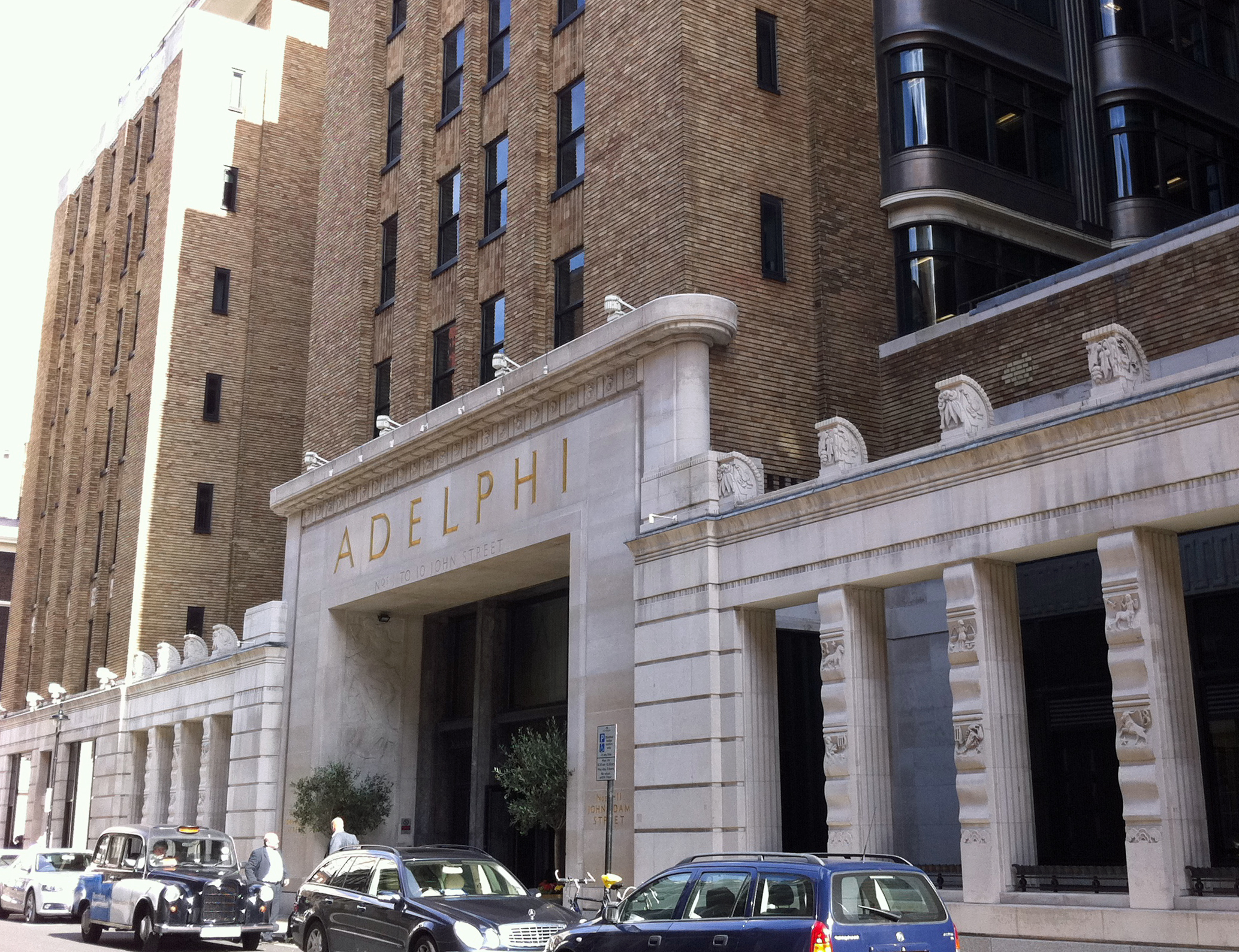 Department for Work and Pensions (DWP), Adelphi, John Adam Street 1-10, London.